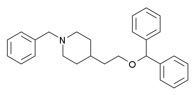 Structure of 1-benzyl-4-diphenylmethoxyethylpiperidine